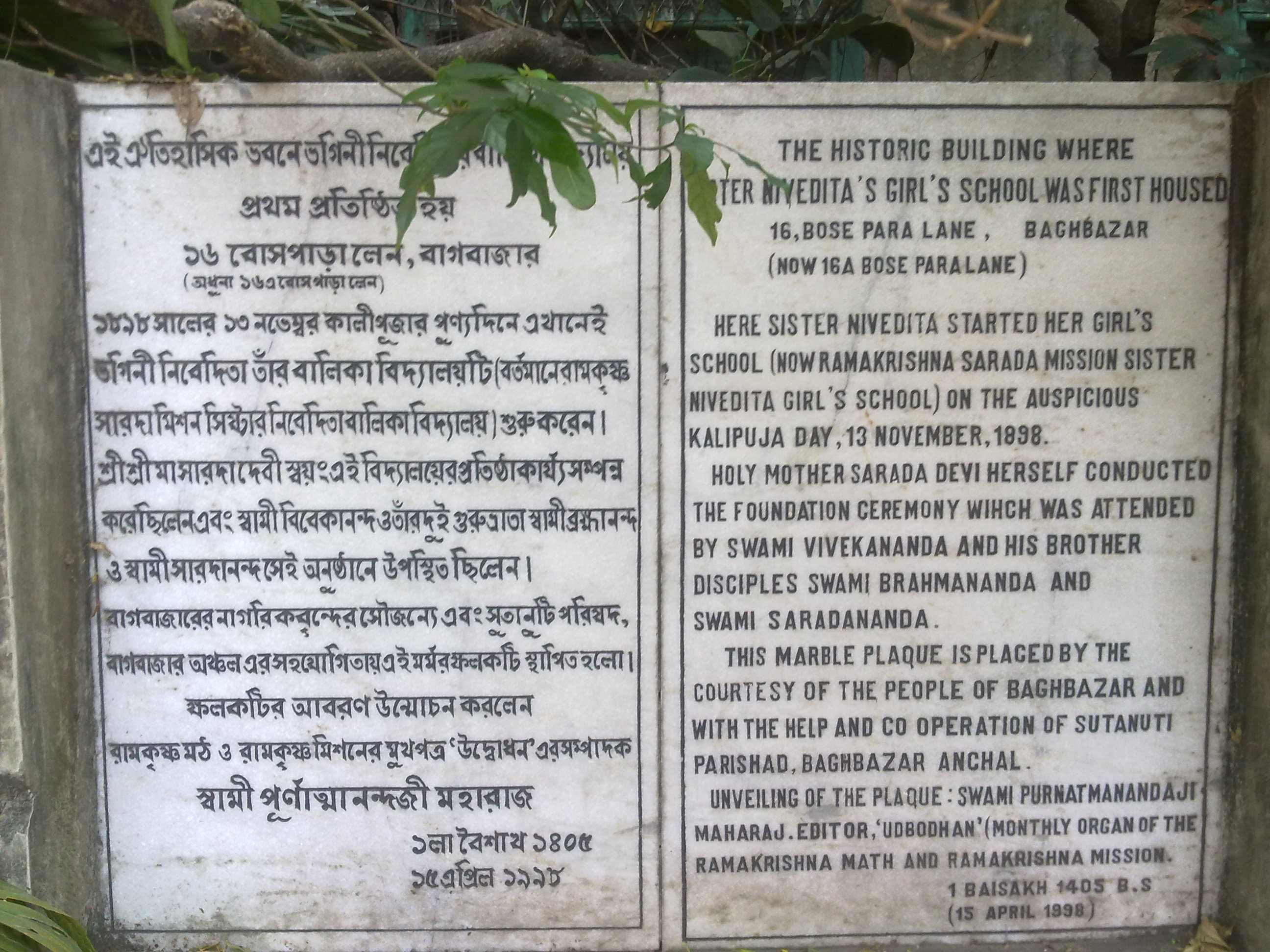 House of Sister Nivedita in Bosepara, Bagbazar, Kolkata